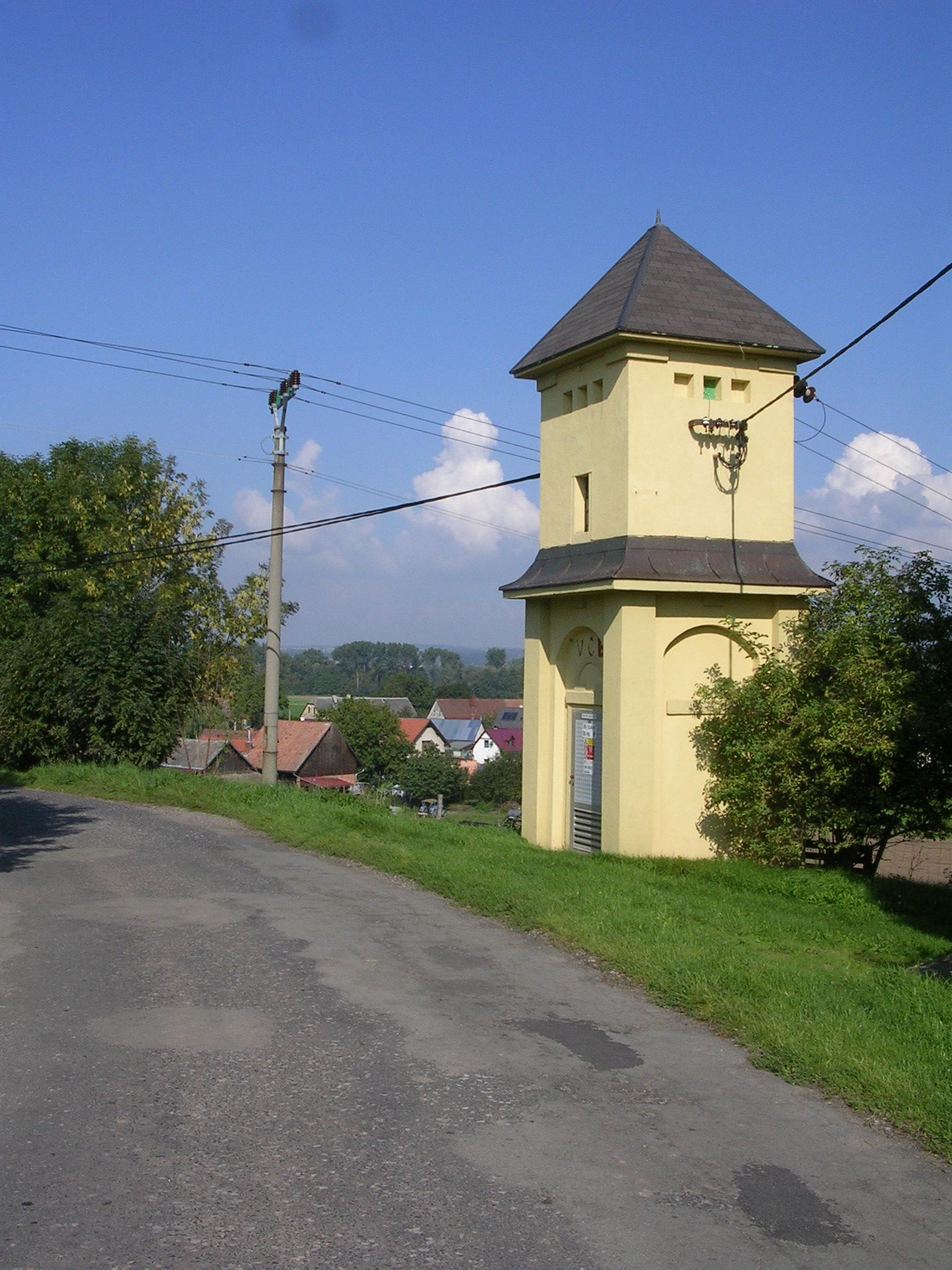 Všeň-Mokrý, Semily District, Liberec Region, the Czech Republic. An electric distribution substation.